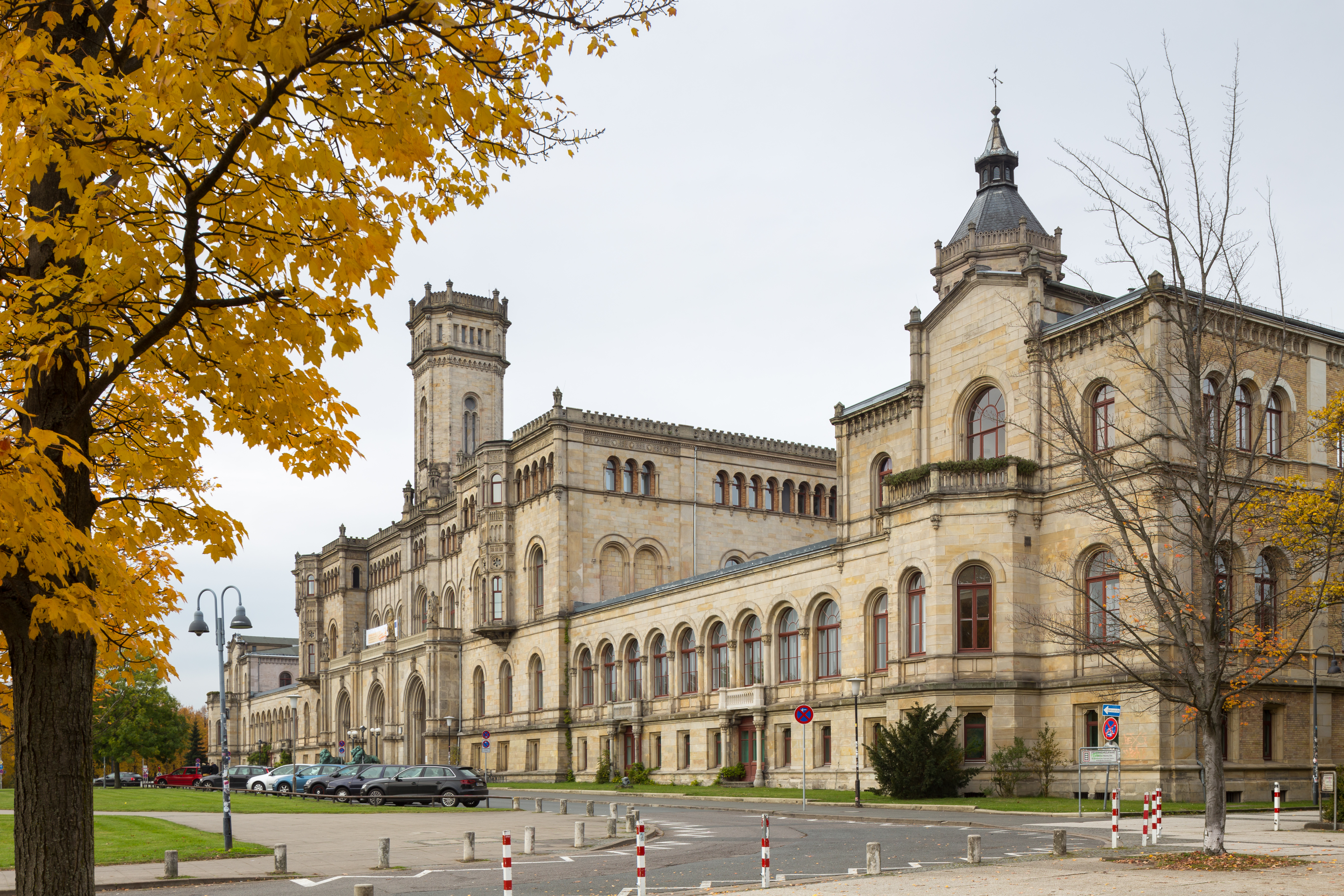 Former Welfenschloss building, today base of Leibniz Universitaet Hannover located at Am Welfengarten no. 1 in Nordstadt quarter of Hannover, Germany.